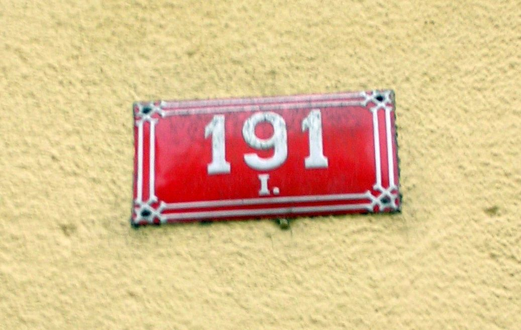 Old Town, Prague, the Czech Republic. A house number 191.